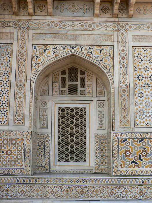 Detail of one of the walls of Itmad-Ud-Daulah's Tomb.